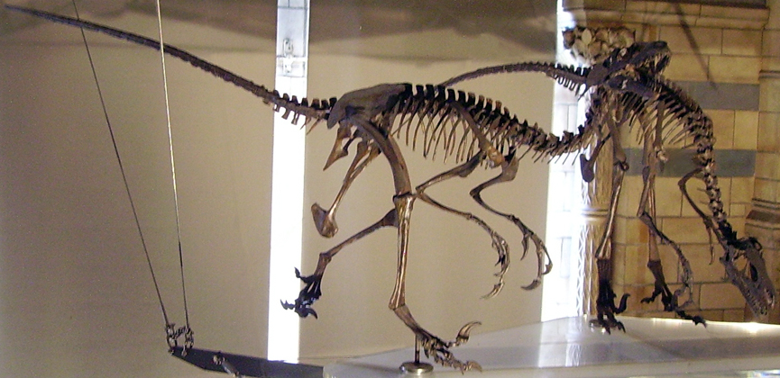 Photo is of Dromaeosaurus exhibit in the National History Museum, London.